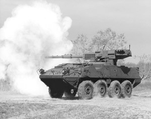 US Mobile Gun System, firing its 105 mm cannon Picture from the US Army's Combined Arms Center Military Review